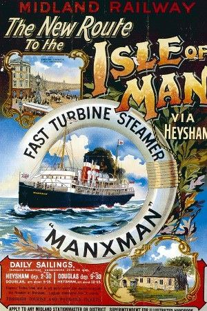 Poster for travel to the Isle of Man aboard TSS Manxman.